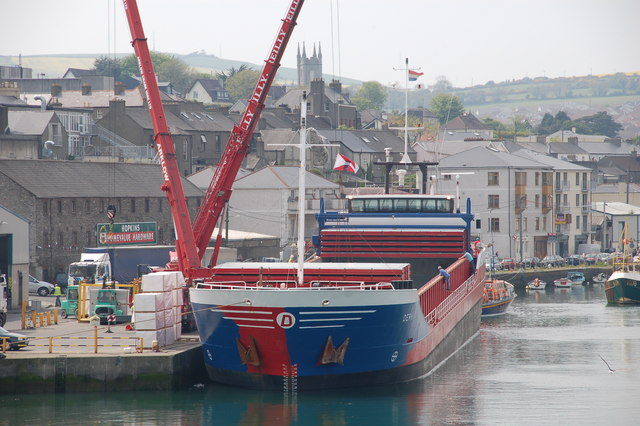 Wicklow harbour. Wicklow Harbour is a small port which has thrived in recent years handling 3/4 ships each week. Here the coaster DERK is discharging a cargo of plasterboard to a quayside warehouse. The seagull in the lower right of the picture has just flown into T3194! IMO Number: 9201932 MMSI Number: 246199000 Callsign: PCIC Length: 89 m Beam: 13 m